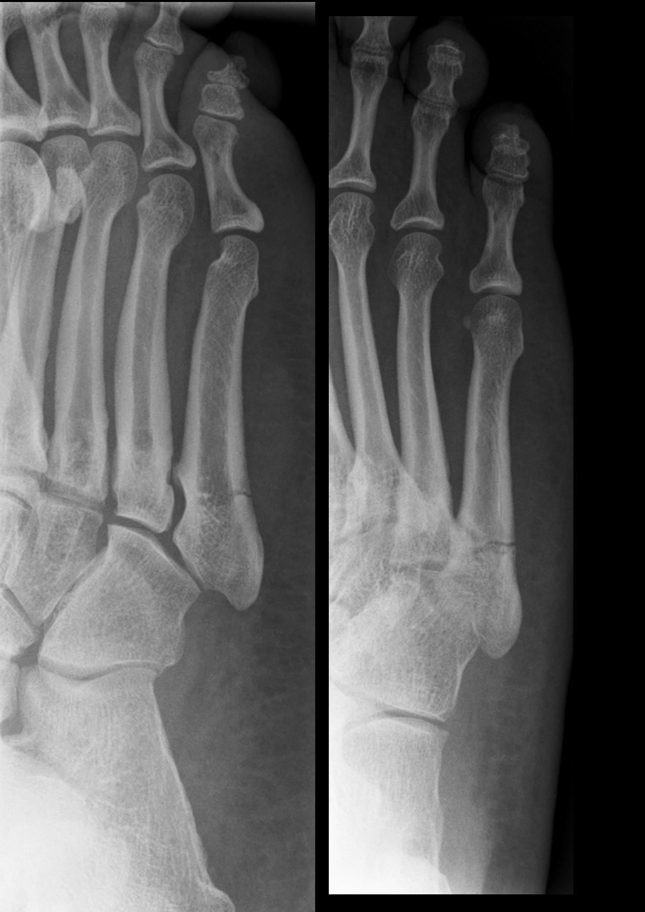 X-ray of a Jones fracture of the right foot.